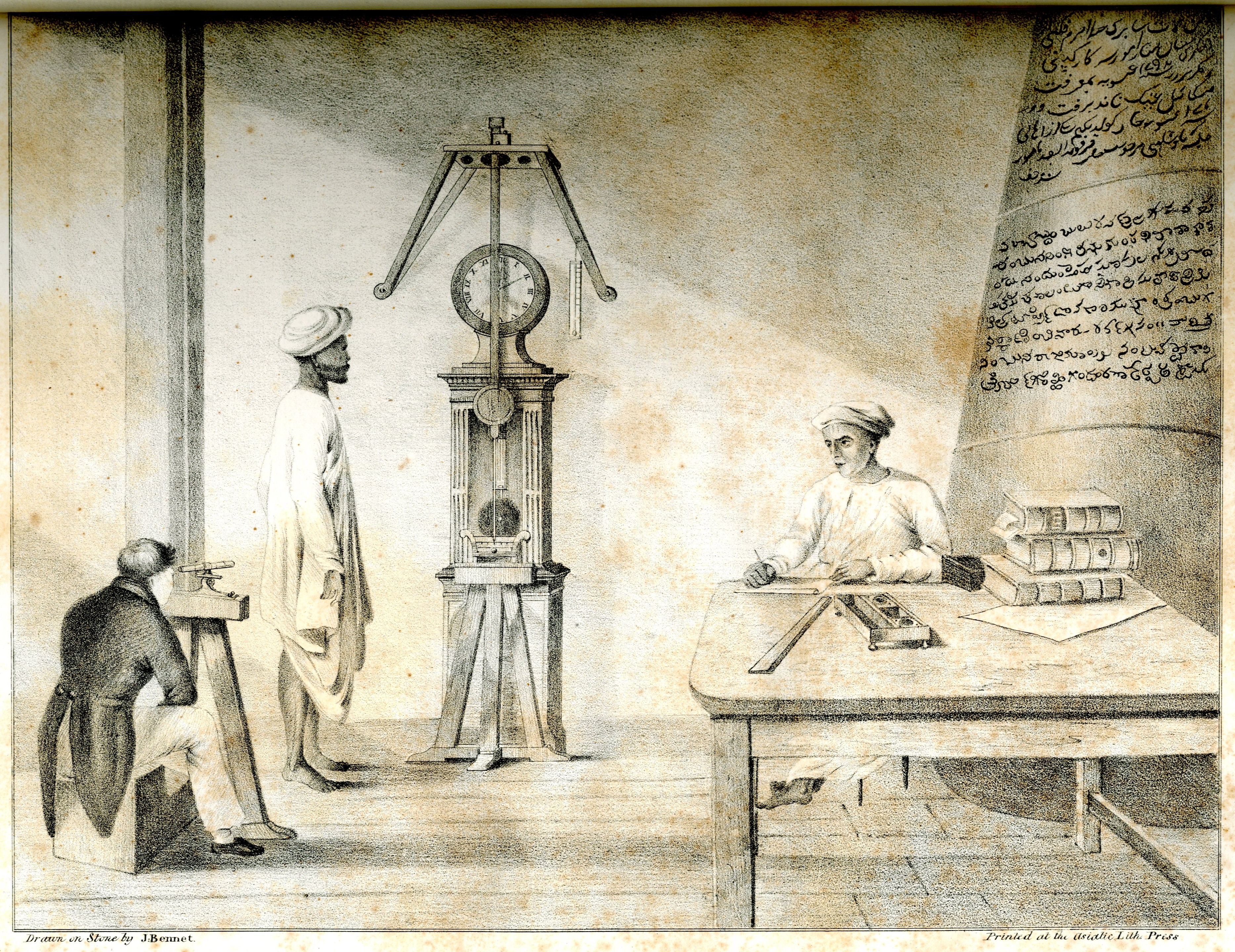 Inside of Madras Observatory with chronometer